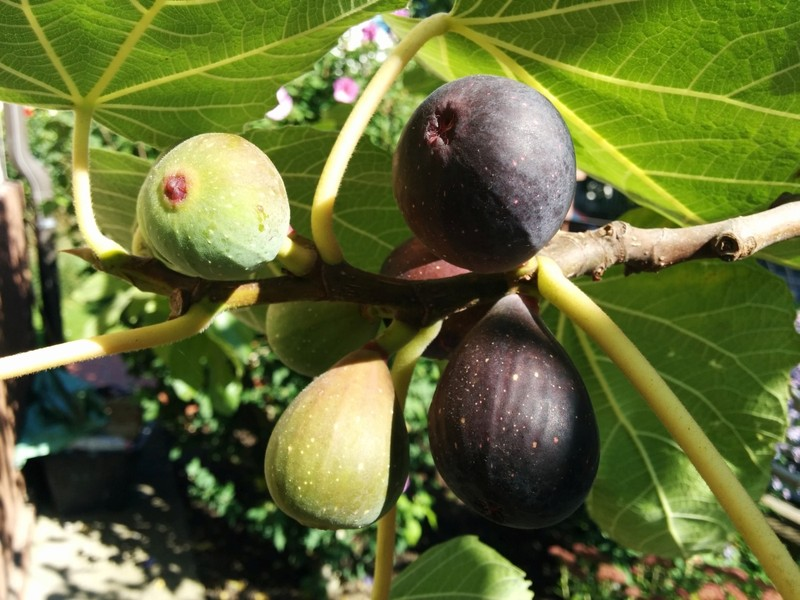 Main crop figs of the Ficus carica variety Negronne in Vienna.